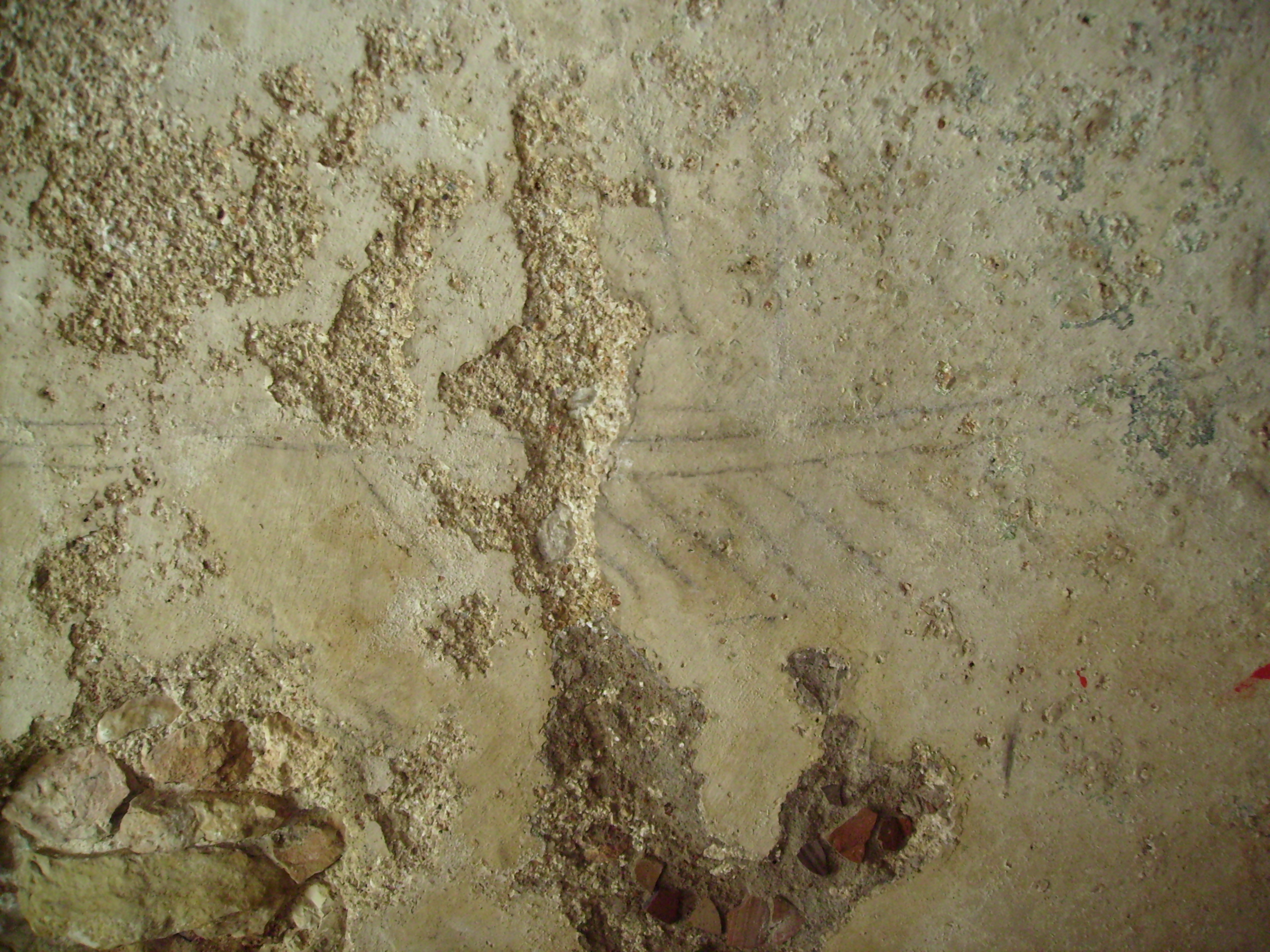 Part of the inscription in Jason's tomb